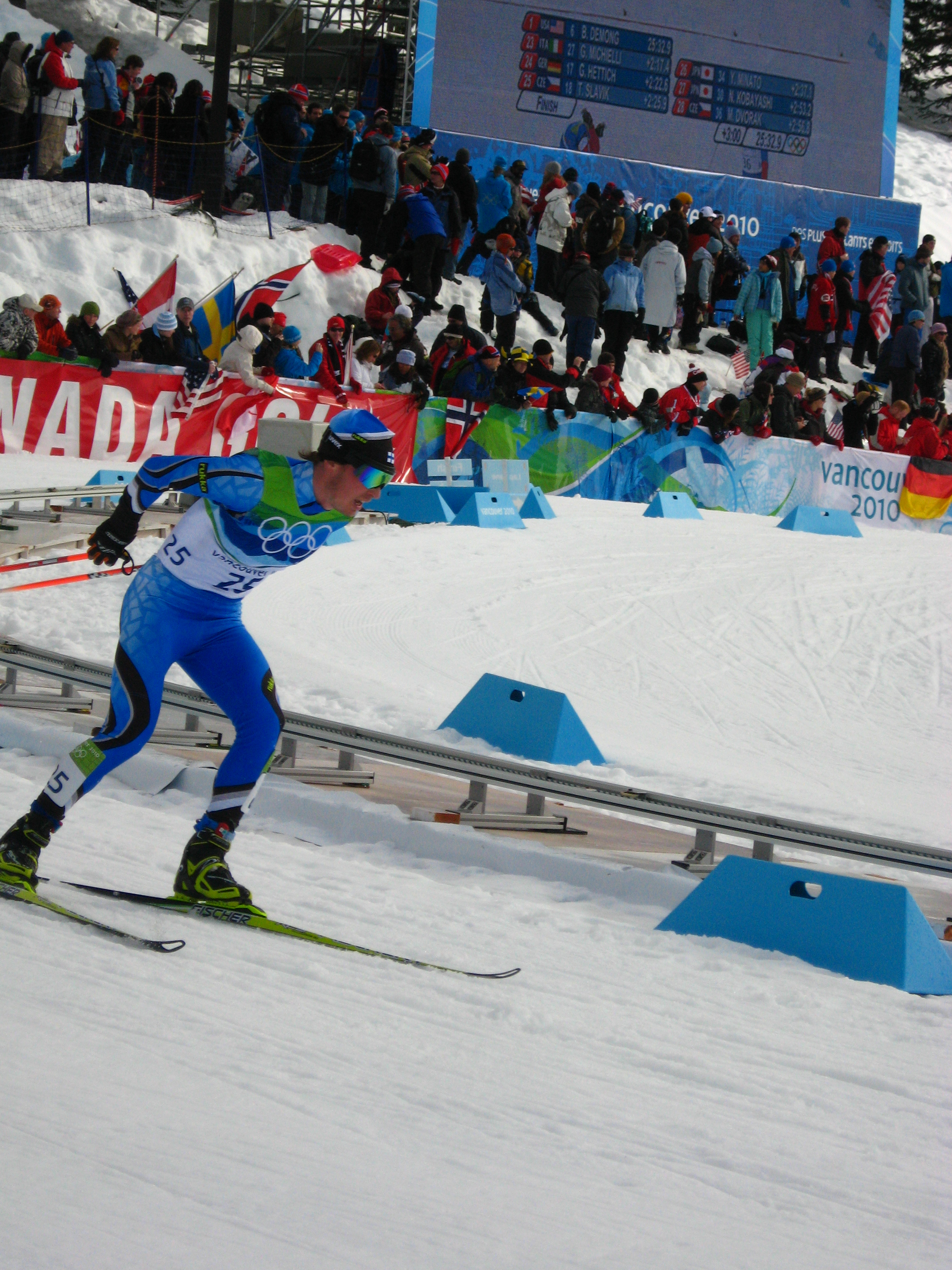 Finnish nordic combined skier Jaakko Tallus at the 2010 Winter Olympics during second part of the Individual large hill/10 km event.